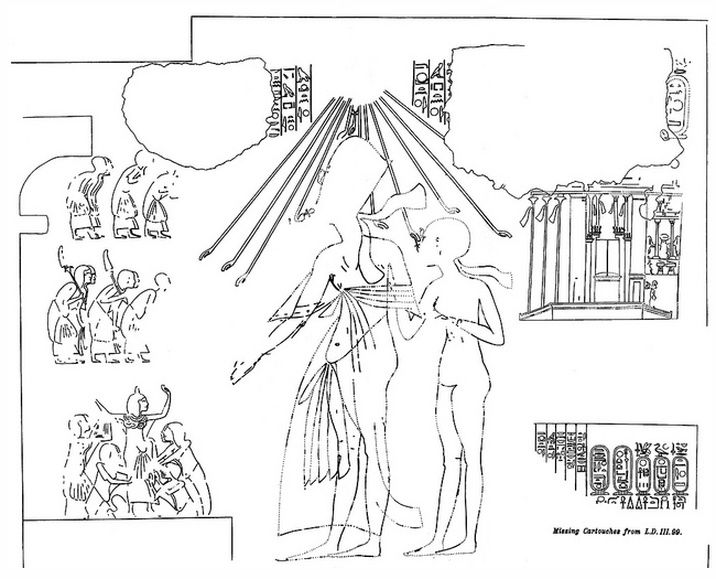 Line drawing of two figures from the tomb of Meryre II in Amarna. The inset (from the original) shows Lepsius drawing of the now missing cartouche sets identifying the figures as Ankhkheperure Smenkhkare Djser Kheperu and his wife Meritaten.